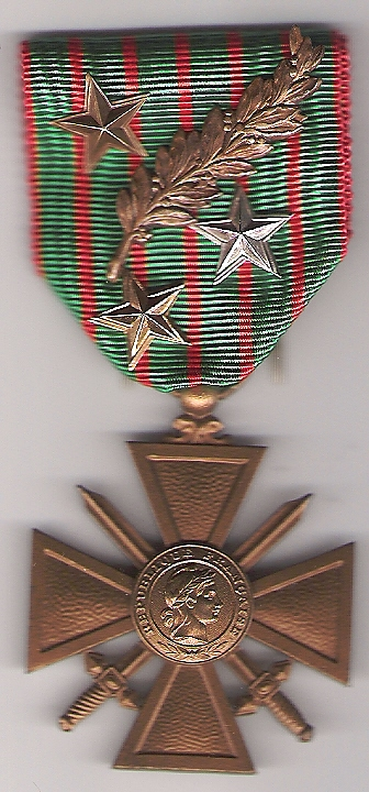 Photo of the Croix de guerre 1914-1918 French (front) with bronze stars, silver, gilt, bronze palm.(Quoted in the order in which the regiment of the brigade, division, army corps and the military).